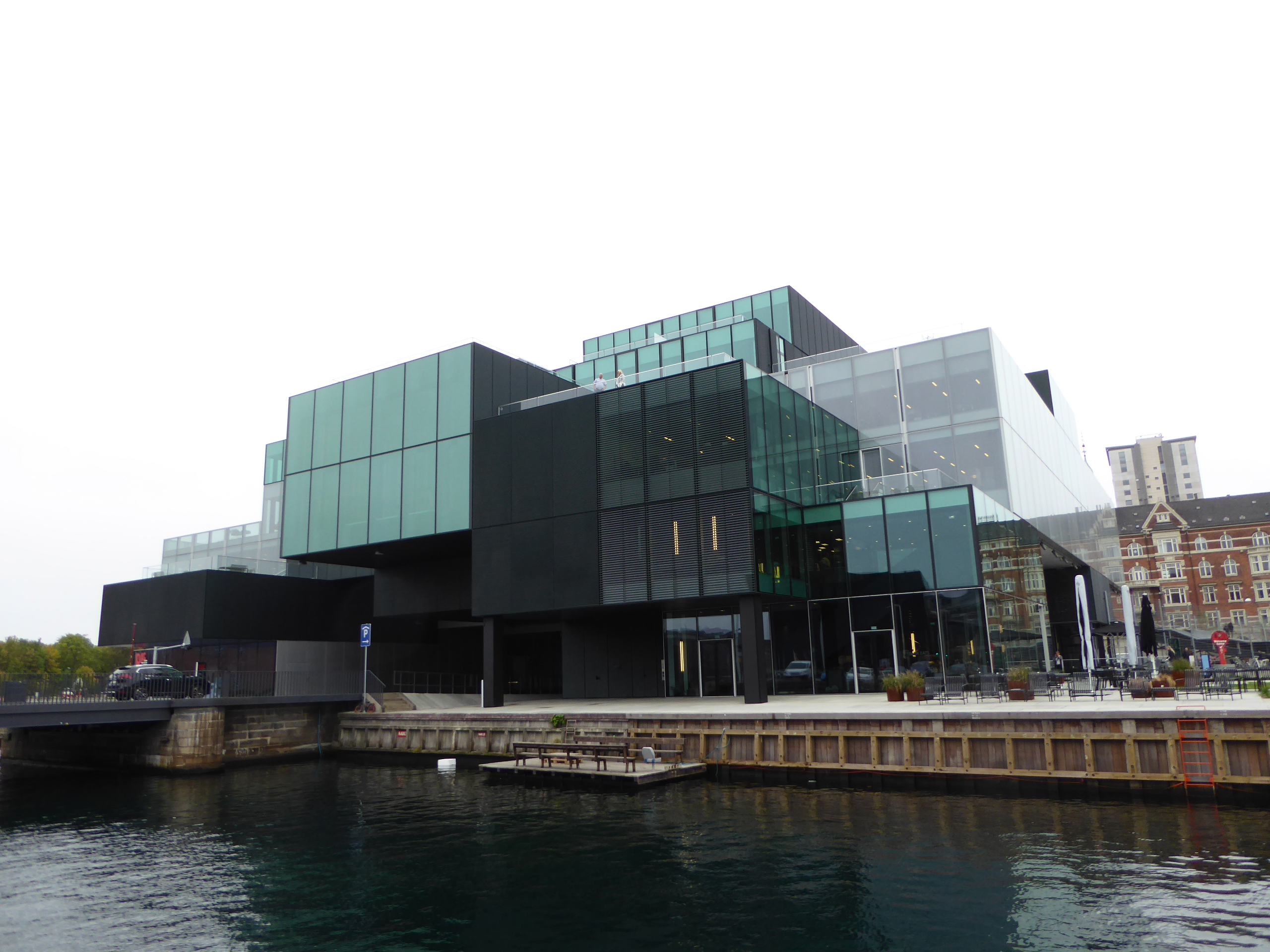 The new exhibition and apartment building BLOX at Frederiksholms Kanal in Copenhagen.